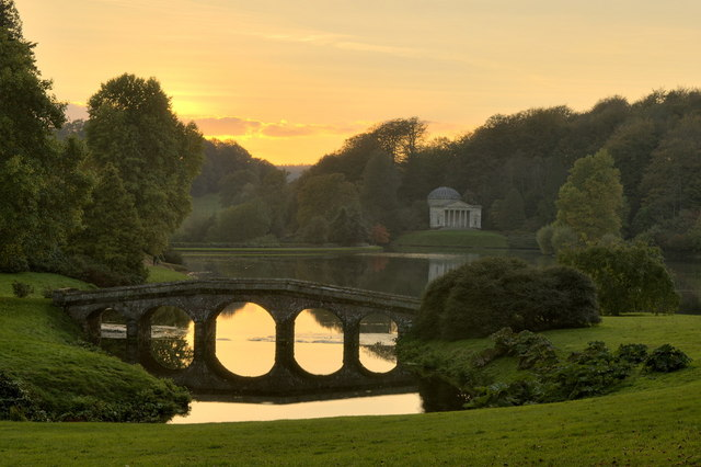 Stourhead Lake in the Evening Sunset at Stourhead, as viewed across lake.